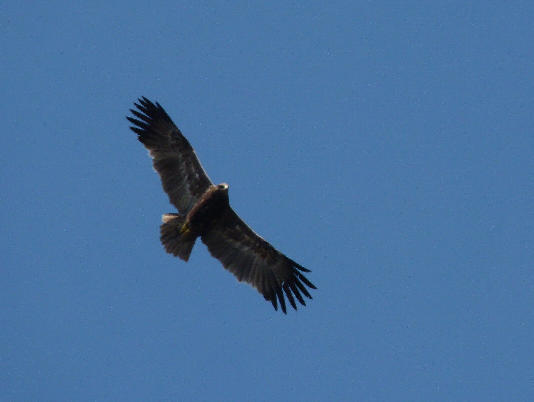 Aquila hastata in flight. Hessarghatta, Bangalore